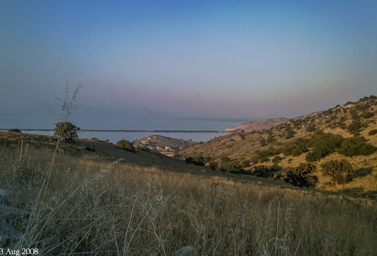 Partial view of Papas Lagoon (alternative names: Araxos Lagoon, Kalogria Lagoon, Kalogera Lagoon). The foto was taken from the hill towards Gianiskari (Yianiskari) beach. In the foreground stands the Akrotirio Araxou village (Araxos Cape, former name: Paralimni), Achaia, Greece.